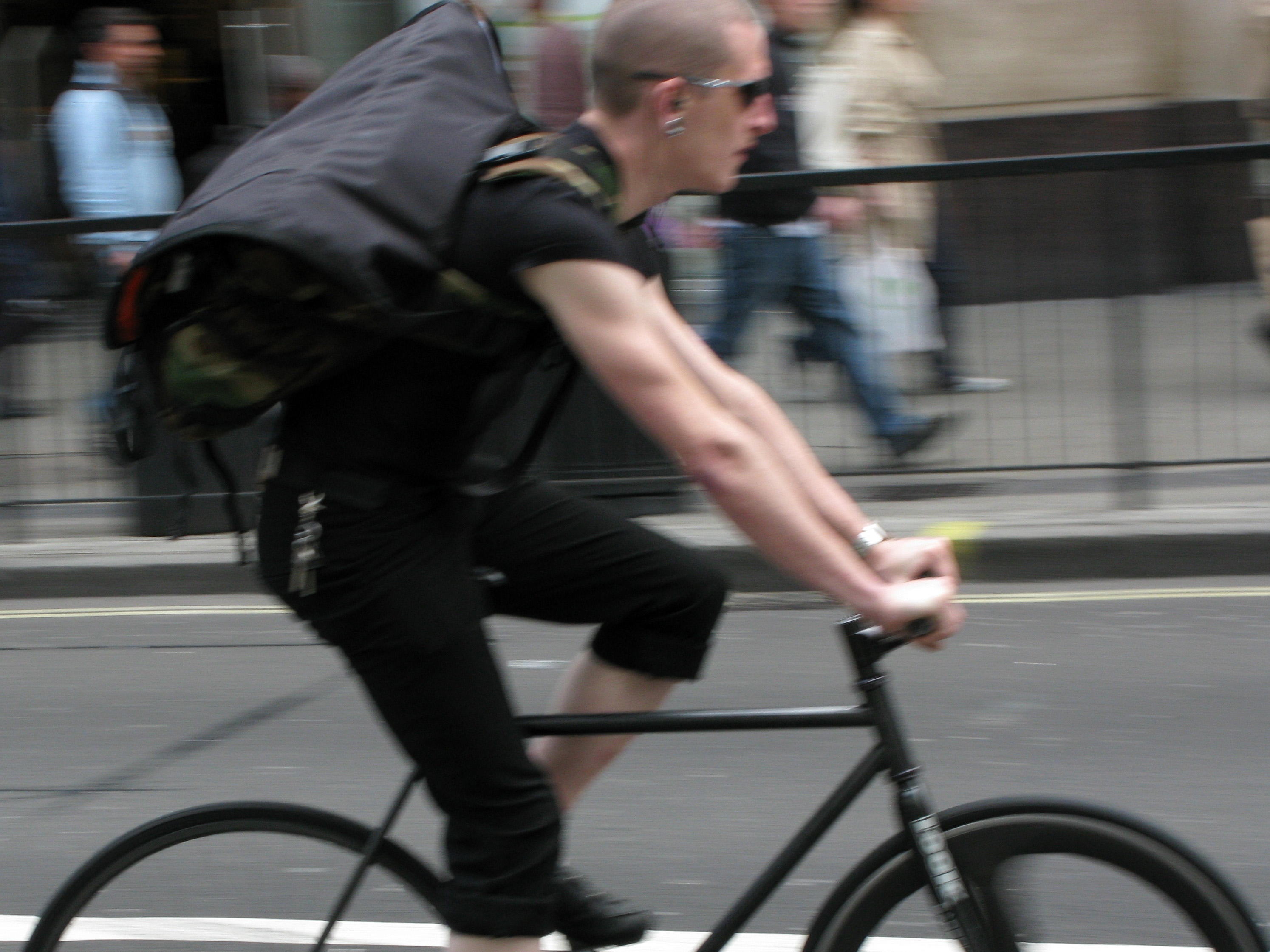 London cyclist